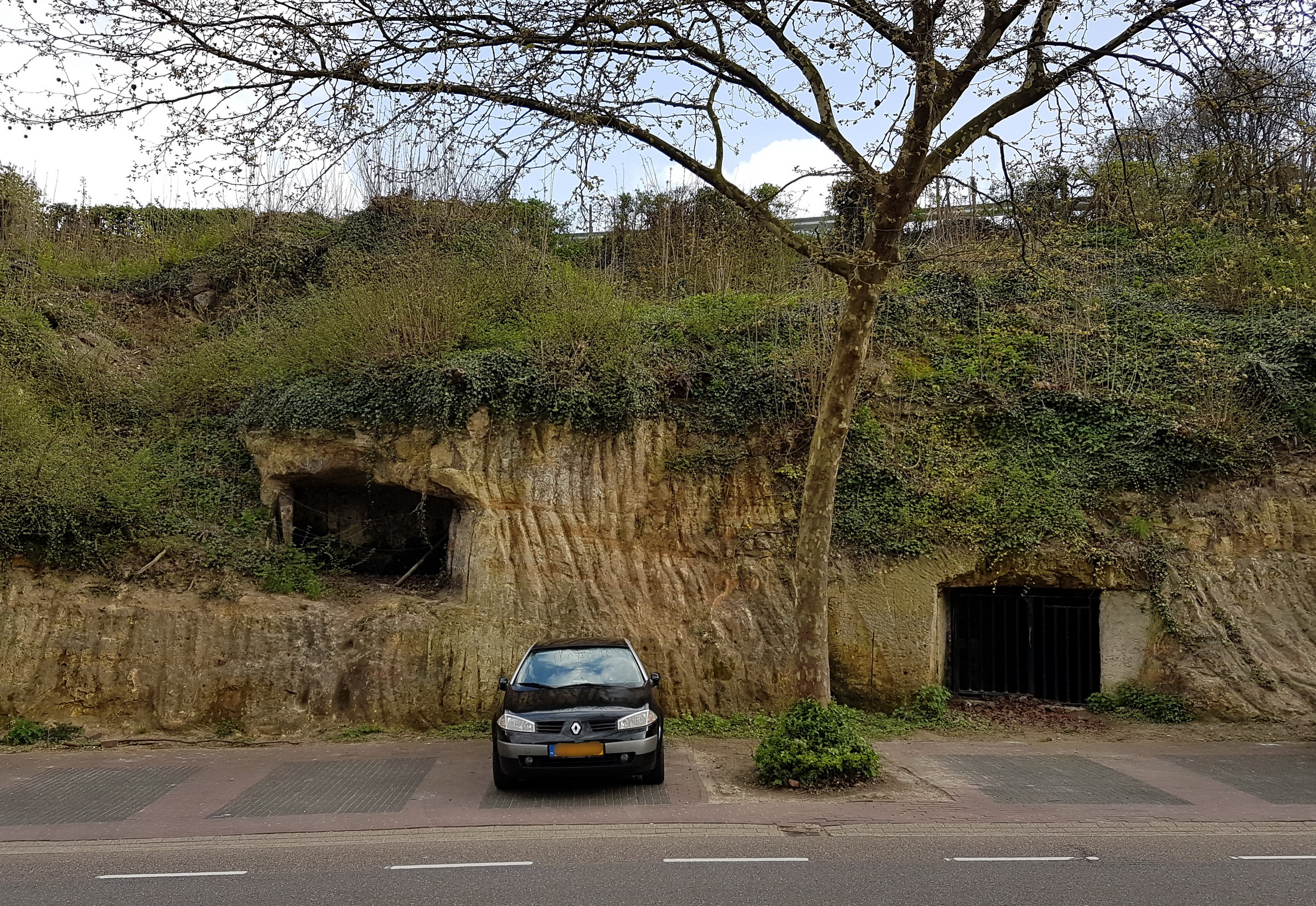 View of limestone quarries along Daalhemerweg in Valkenburg, Limburg, the Netherlands.